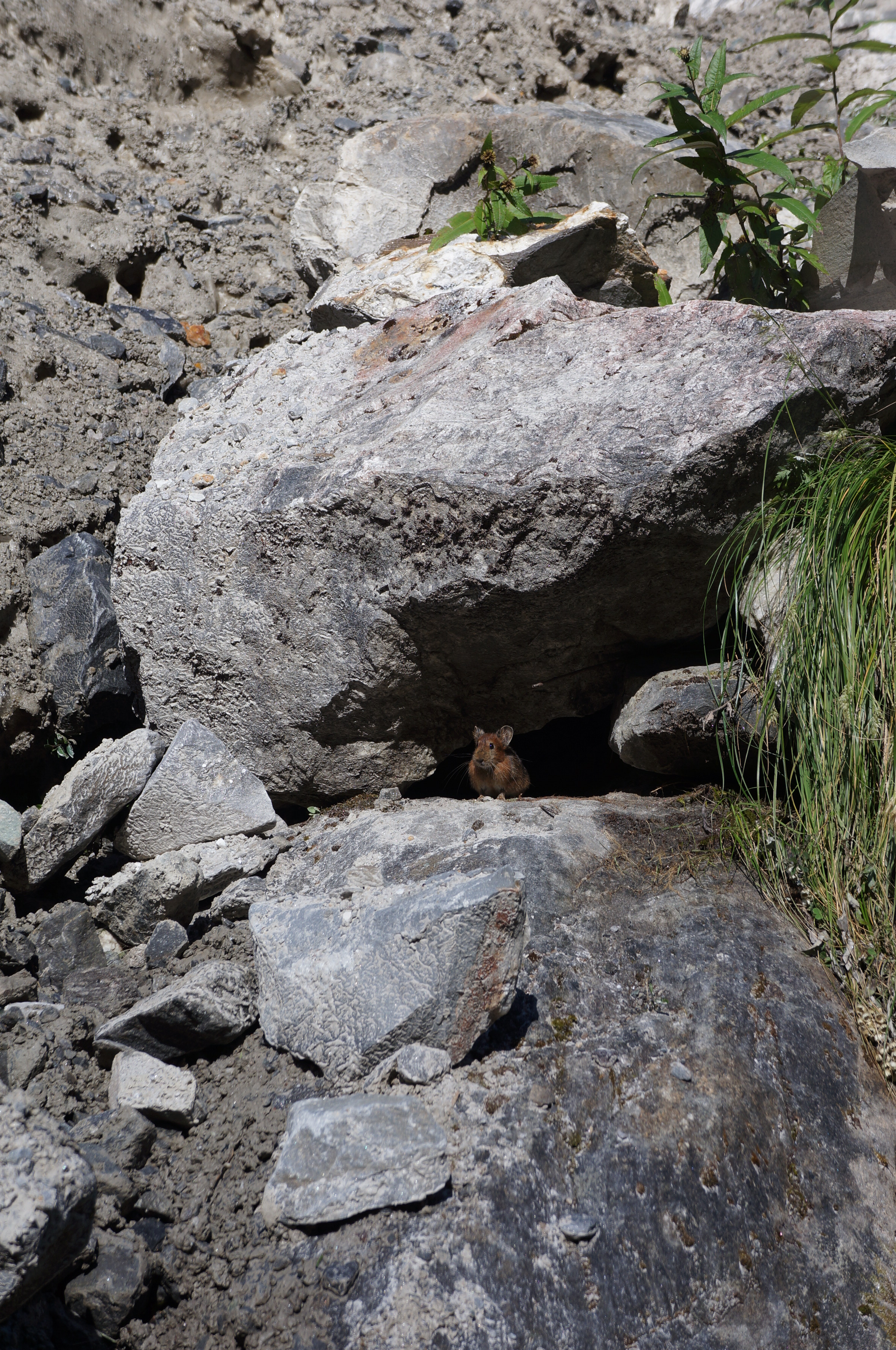 Himalayan Pika spotted in the Annapurna Conservation Area